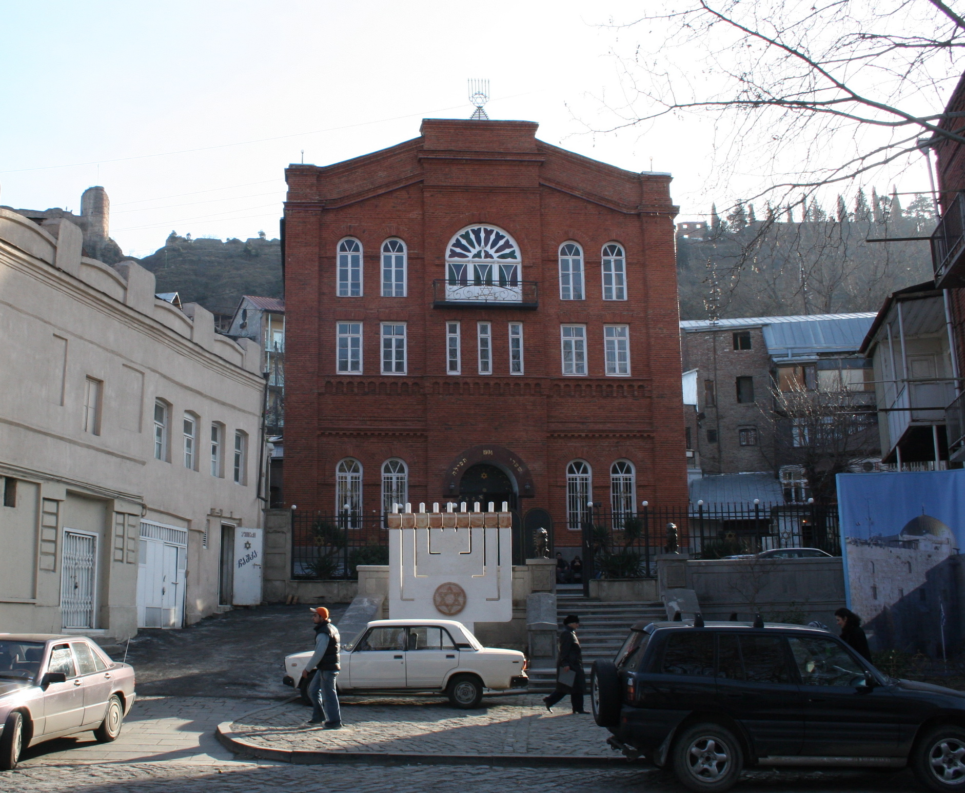 The Tbilisi Synagogue, built in 1904